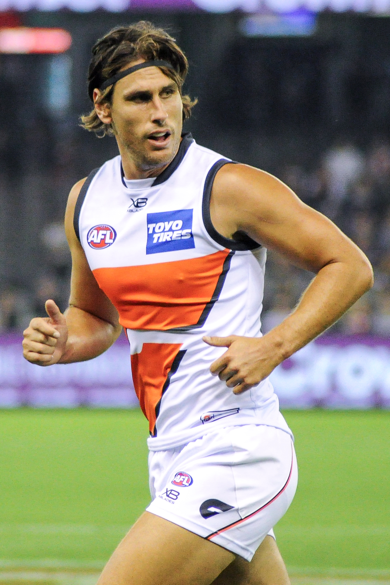 Ryan Griffen during the AFL round five match between St Kilda and Greater Western Sydney on 21 April 2018 at Etihad Stadium in Melbourne, Victoria.